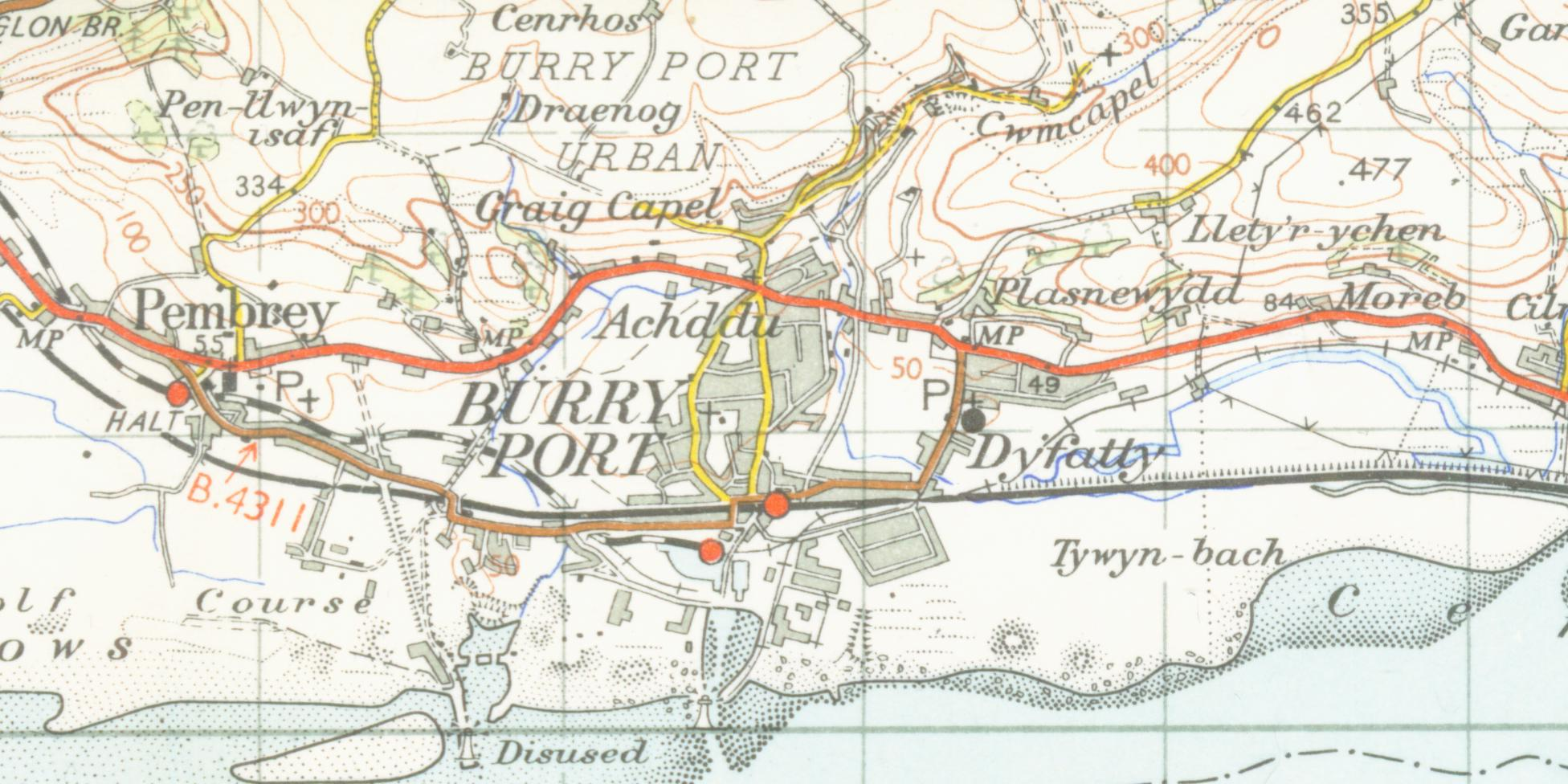 map of Burry Port at 1 inch to the mile scale scanned at 600 DPI